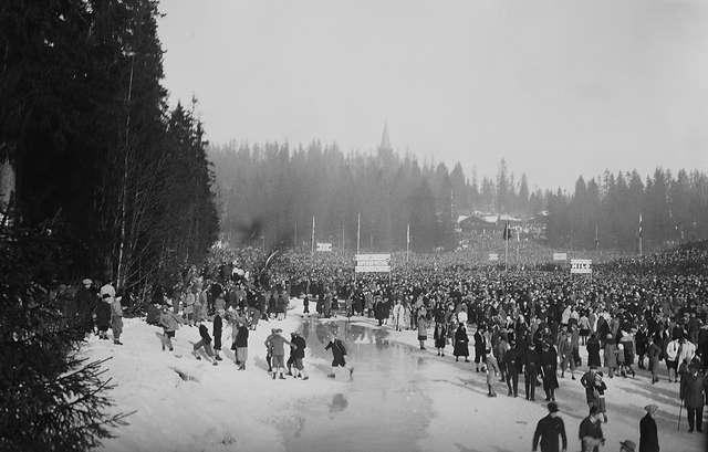 Holmenkollbakken in Oslo, Norway, during FIS Nordic World Ski Championships 1930